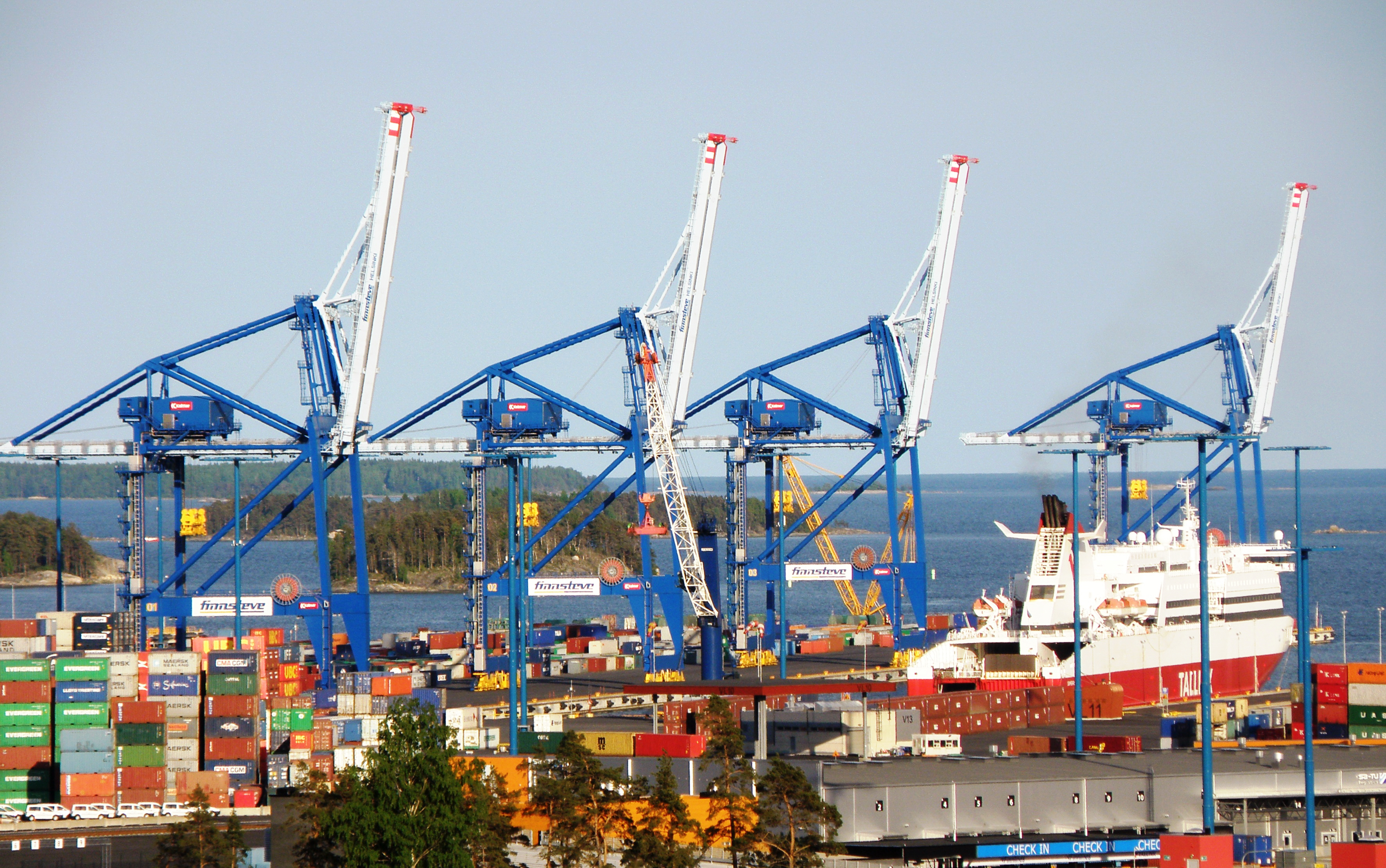 Cranes at Vuosaari harbour, Helsinki, Finland